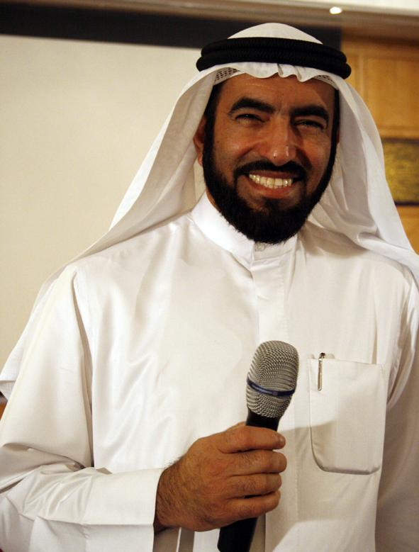 Tareq Al-Suwaidan is a Kuwaiti entrepreneur, Islamic author and speaker, and a leader of the Kuwaiti Muslim Brotherhood.